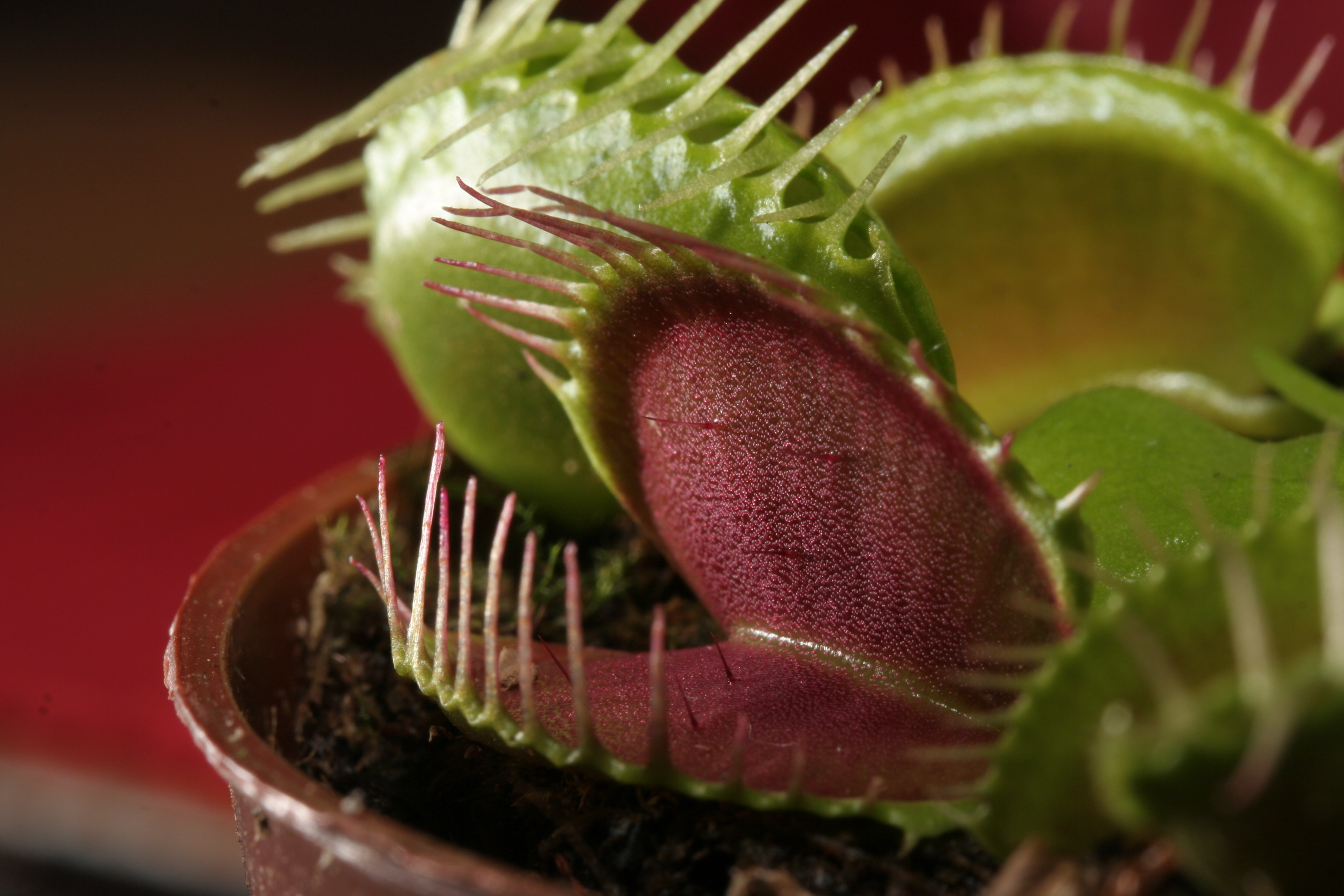 Trap of Dionaea muscipula